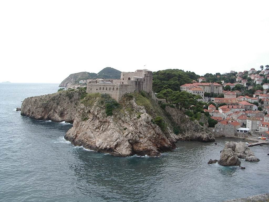 Dubrovnik walls from the sea.